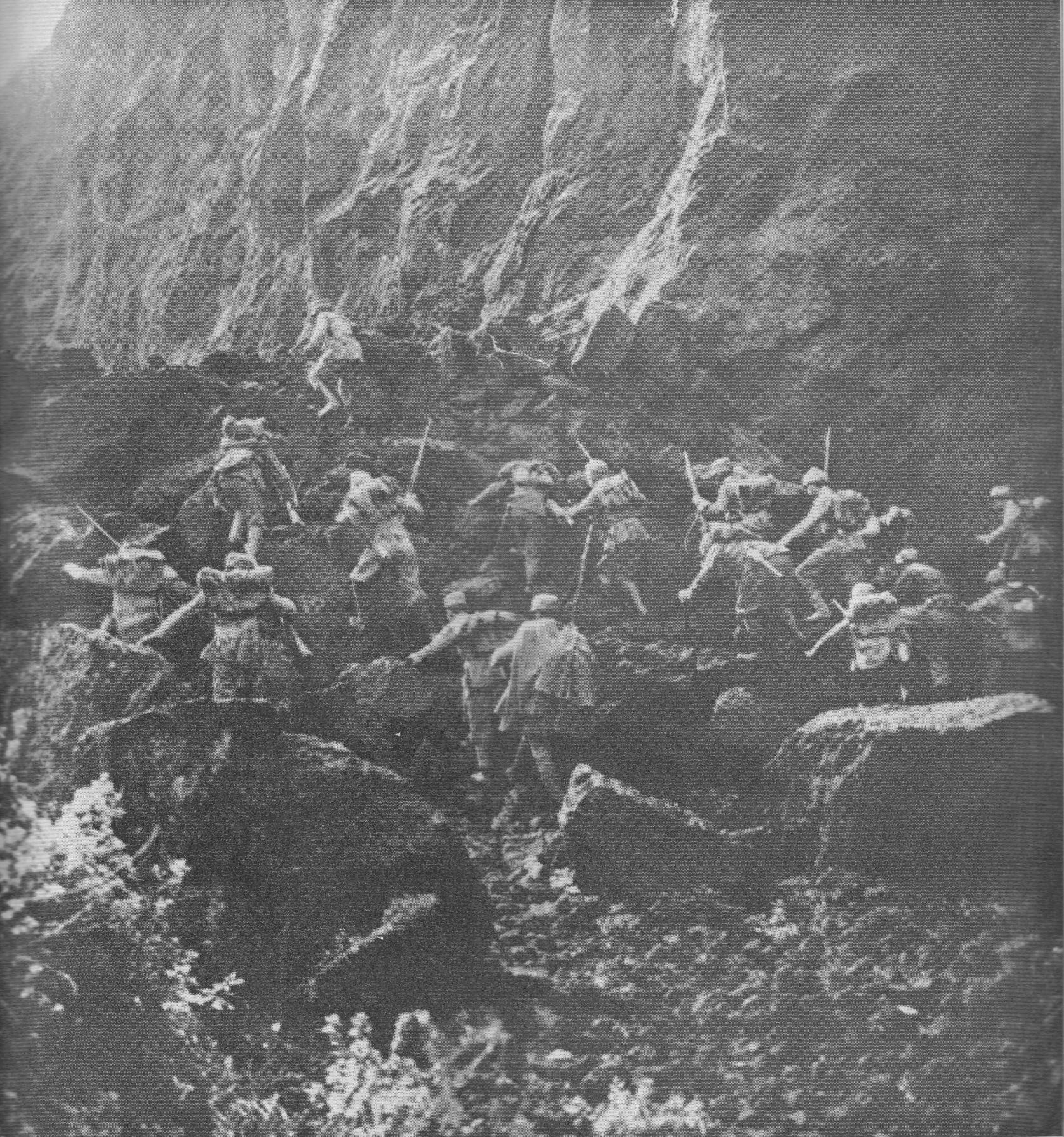 "An Italian advance in difficult conditions As often happens in the fighting on the Austro-Italian front, these Italian soldiers scramble over jagged rocks and up precipitous slopes. In this instance, they took advantage of the confusion resulting after a mine explosion, and captured the Austrian position" (caption)